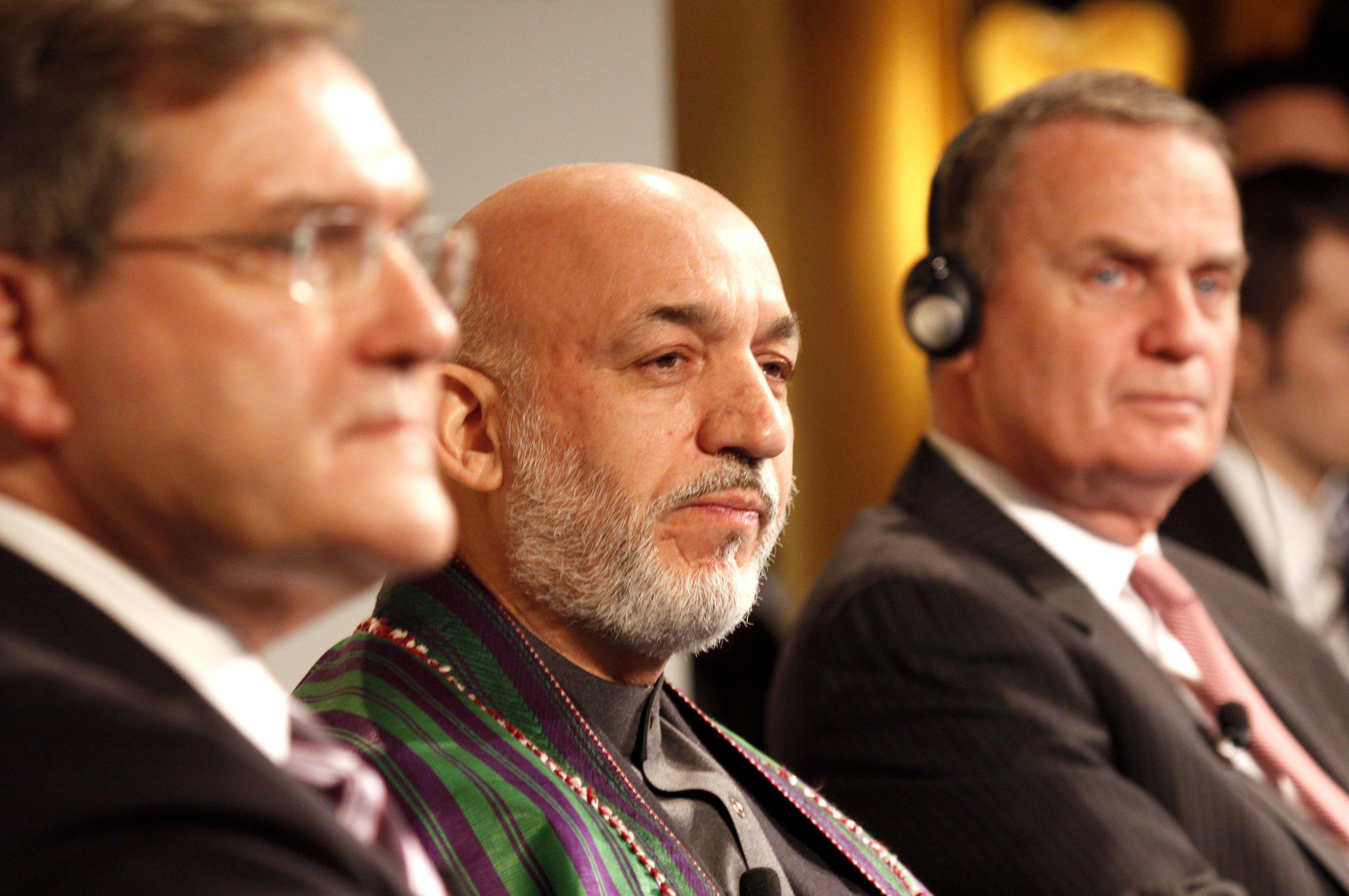 45th Munich Security Conference 2009: The Federal Minister of Defense, Dr. Franz Josef Jung (le), the President of the Islamic Republic of Afghanistan, Hamid Karzai (mi) and James L. Jones (re), US National Security Advisor.